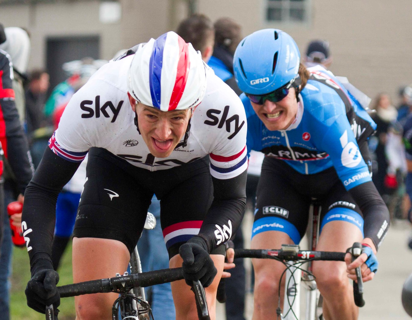 Ian Stannard and Johan Vansummeren riding in the E3 Harelbeke 2013